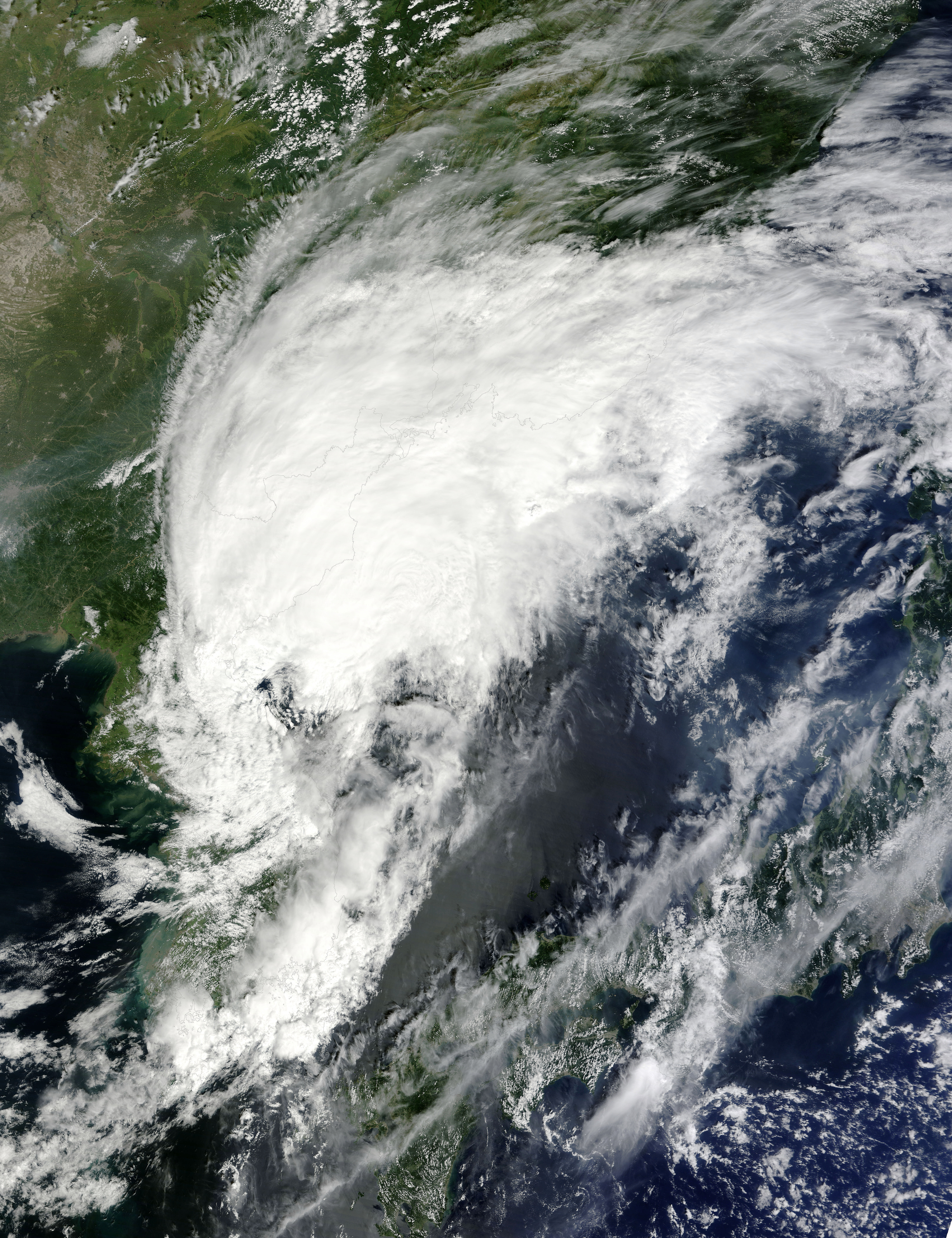 Tropical Storm Kompasu formed over the western Pacific Ocean on August 30, 2010, and strengthened to a Category 3 typhoon the next day, according to tracking information from Unisys. By September 2, Kompasu had weakened back to a tropical storm and made landfall along the coasts of North Korea and the Russian Federation. On September 2, 2010, the U.S. Navy’s Joint Typhoon Warning Center (JTWC) reported that Kompasu was located roughly 400 nautical miles (750 kilometers) west of Misawa, Japan. The storm had maximum sustained winds of 50 knots (90 kilometers per hour) and gusts up to 65 knots (120 kilometers per hour). The Moderate Resolution Imaging Spectroradiometer (MODIS) on NASA’s Terra satellite captured this natural-color image of Tropical Storm Kompasu on September 2, 2010. The storm has lost the spiral shape and distinct eye characteristic of typhoons. Nevertheless, Kompasu holds together as a solid cloud mass spanning hundreds of kilometers. Kompasu lost strength after making landfall. On September 2, the JTWC forecast that the storm would become extratropical within a matter of hours.